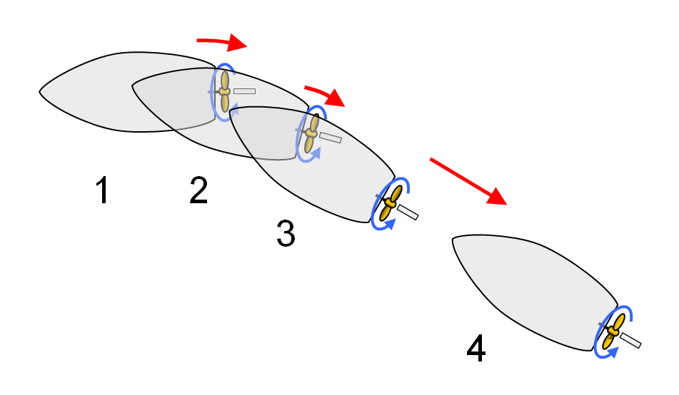 Influence of the propeller walk on a ship with a clockwise propeller when driving astern